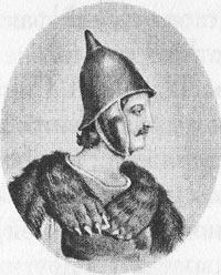 Yaropolk I of Kiev